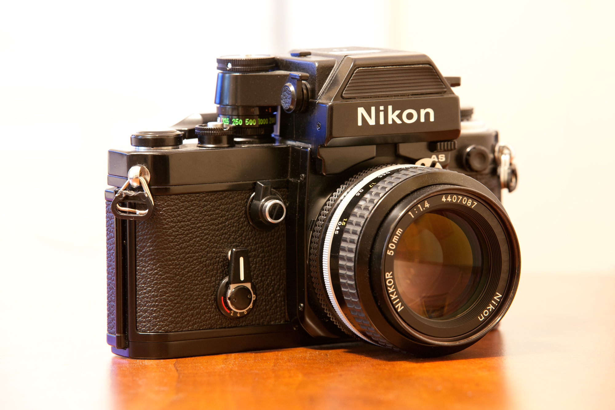 A Nikon F2AS 35mm film camera, circa 1972